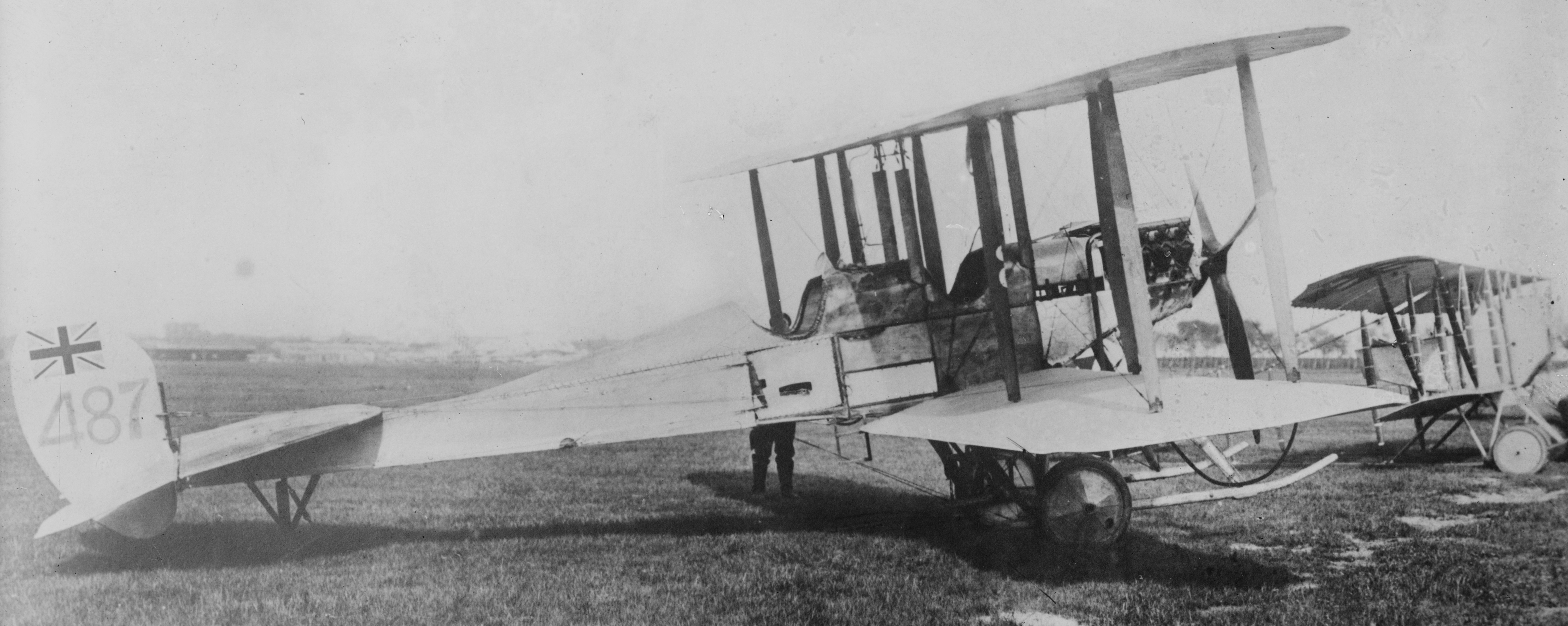 A Royal Aircraft Factory B.E.2a. According to partially deleted caption, in German hands (although the other aircraft in the photo is also an allied type, a Caudron). Taken early in the war before the RFC adopted the roundel marking in late 1915.